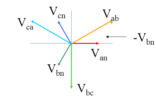 This phasor diagram presents the line voltages in a wye configuration.